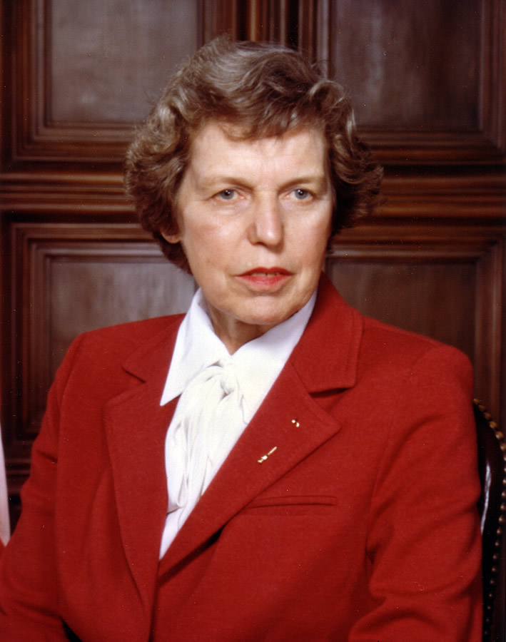 Ann Caracristi, NSA